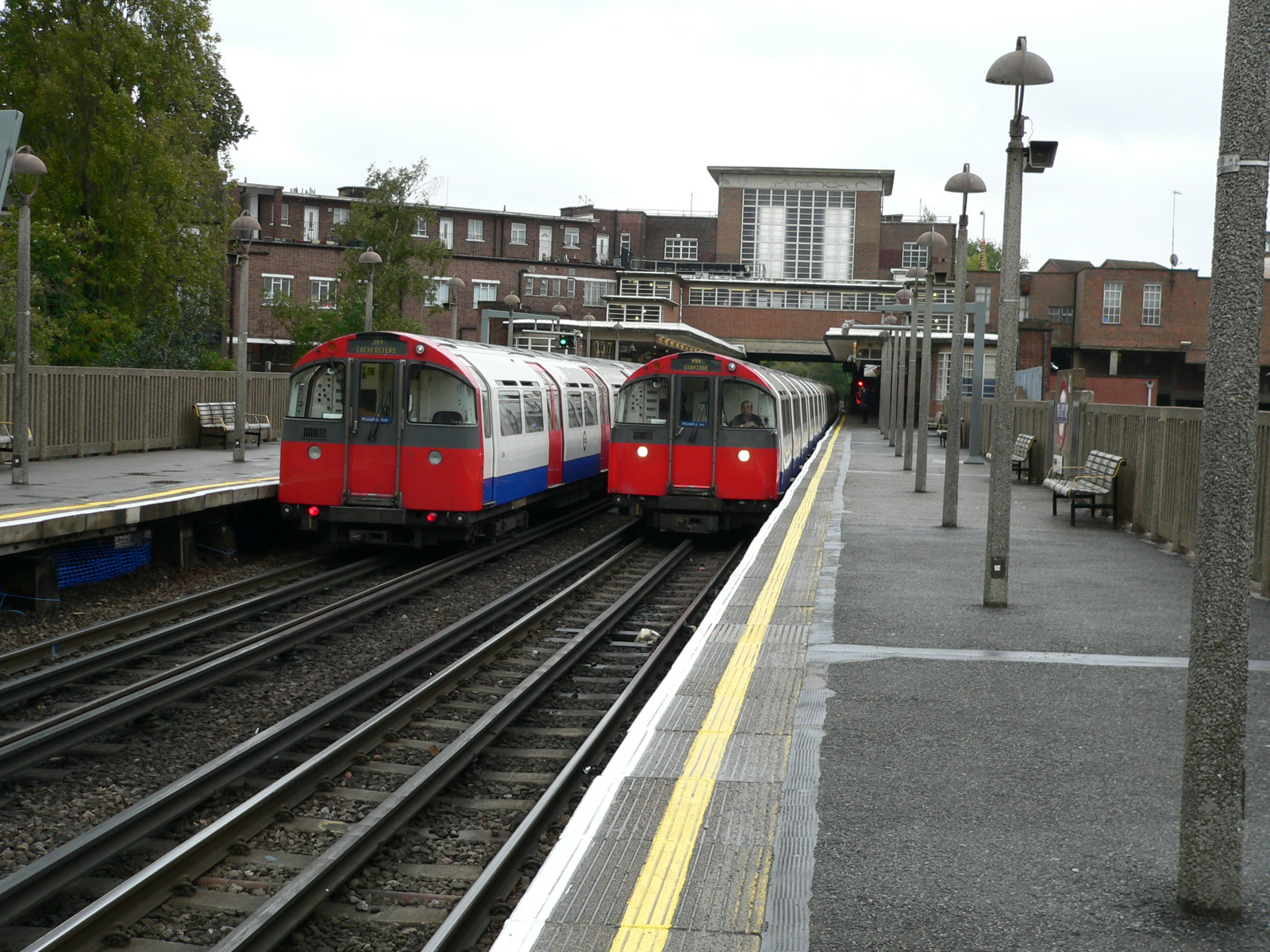 Two London Underground Picadilly Line 1973 tube stock trains at Rayners Lane station on 24 October 2005.